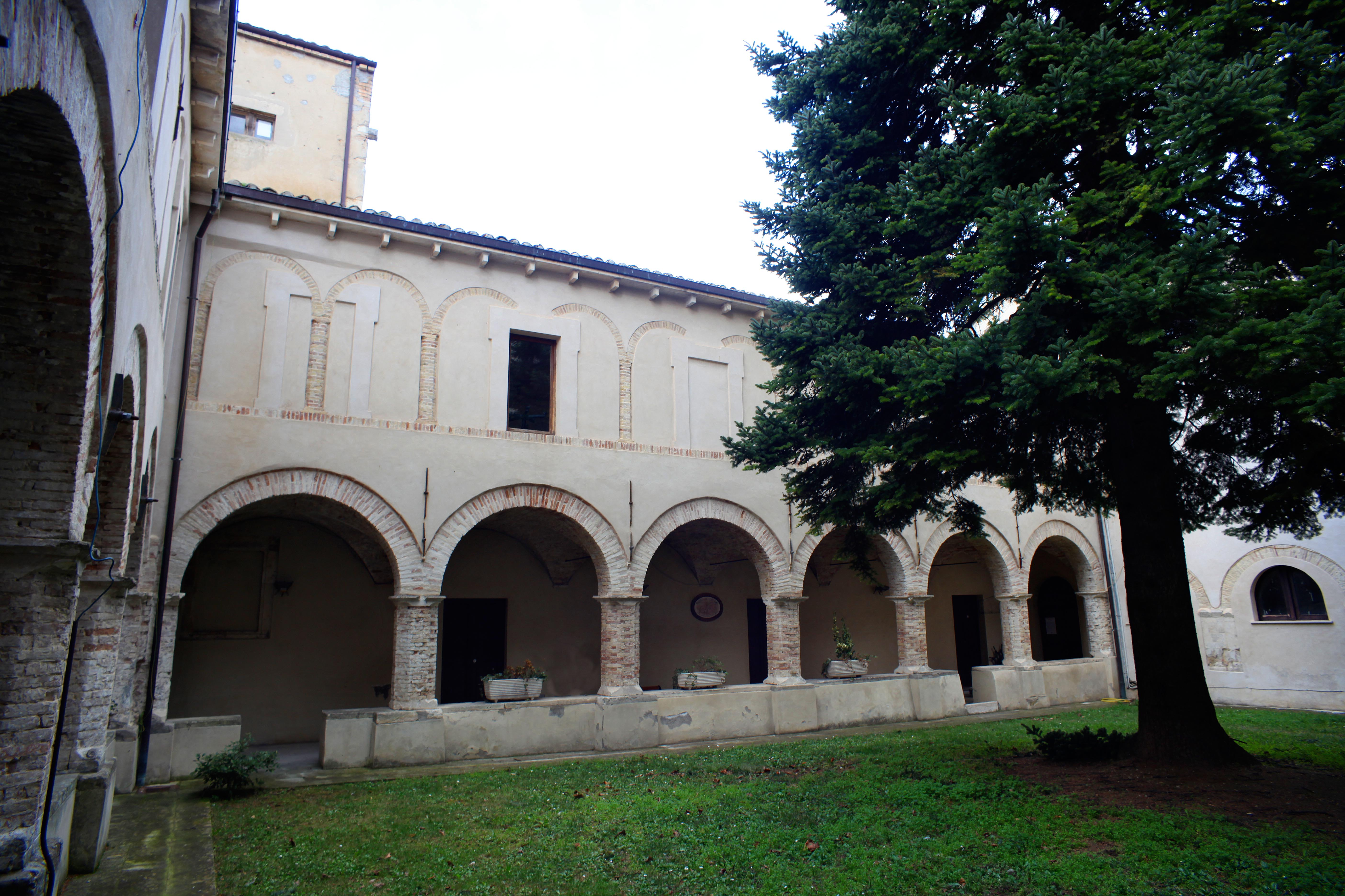 Portico of the convent next to the San Francesco D'Assisi church, Guardiagrele, IT